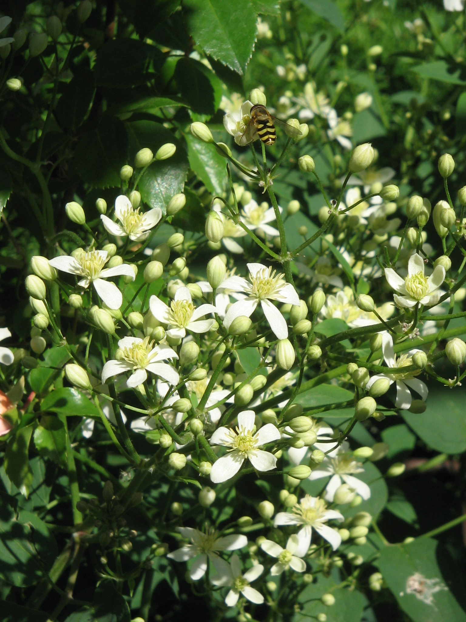 Clematis recta